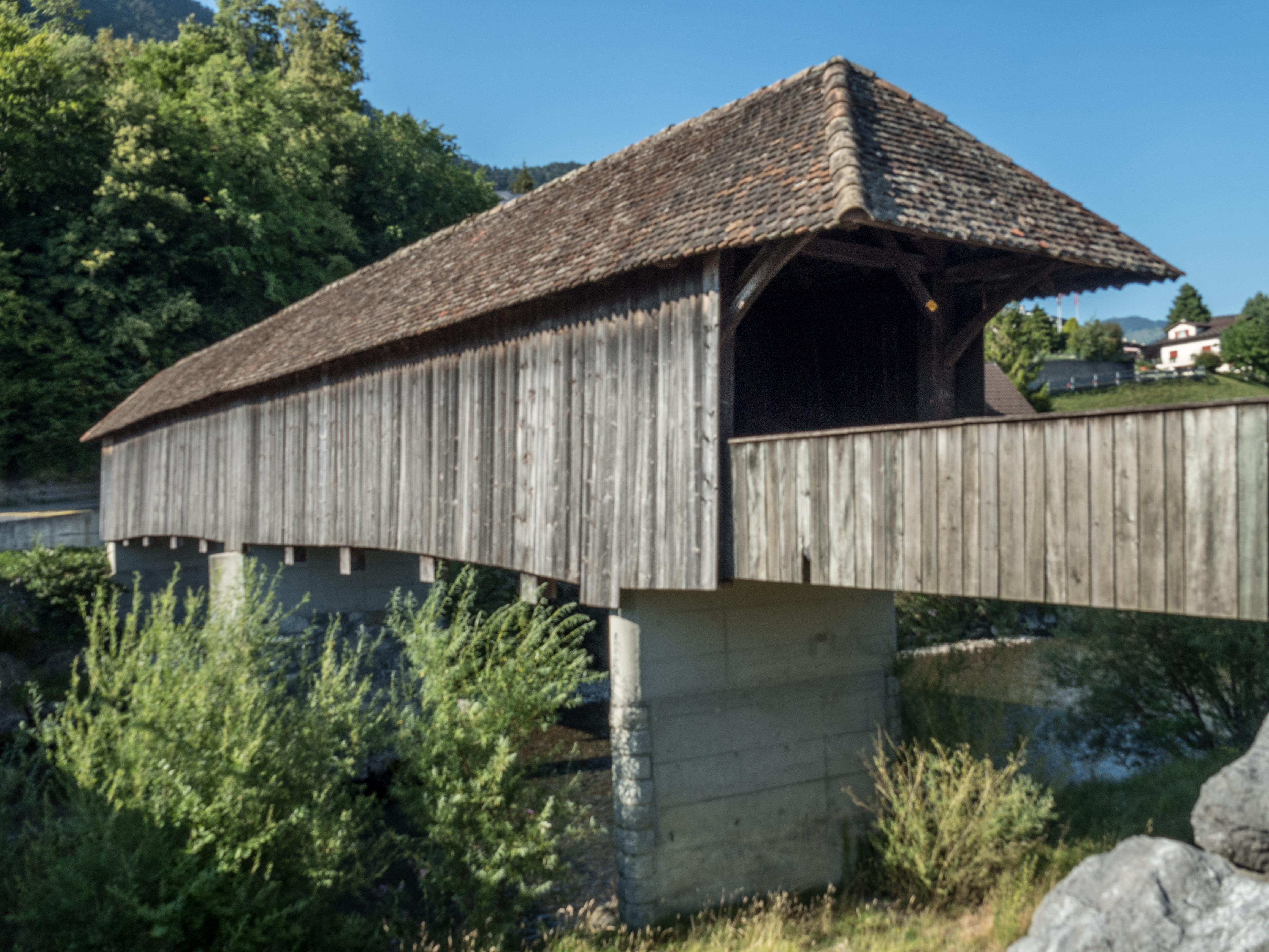 Wilerbrugg Covered Wooden Bridge over the Muota River, Brunnen, Canton of Schwyz, Switzerland